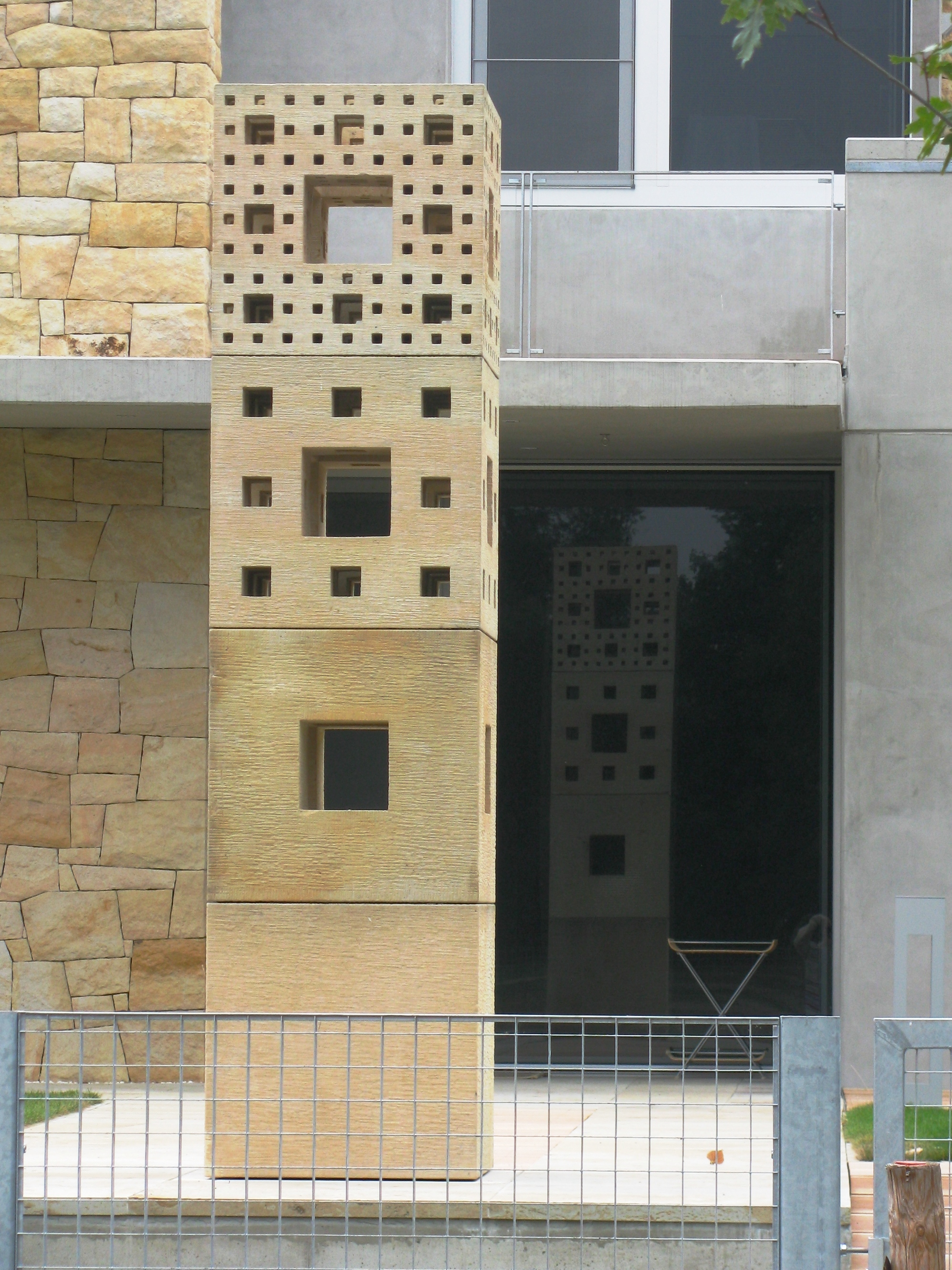 Sculpture in a shape of a Menger sponge.